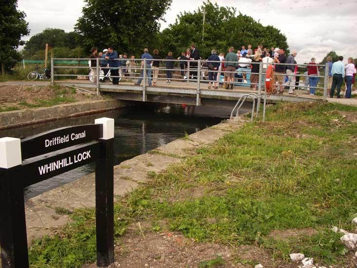 Whinhill Lock during the opening ceremony in 2005. Situated between Driffield and Wansford, East Riding of Yorkshire, England.